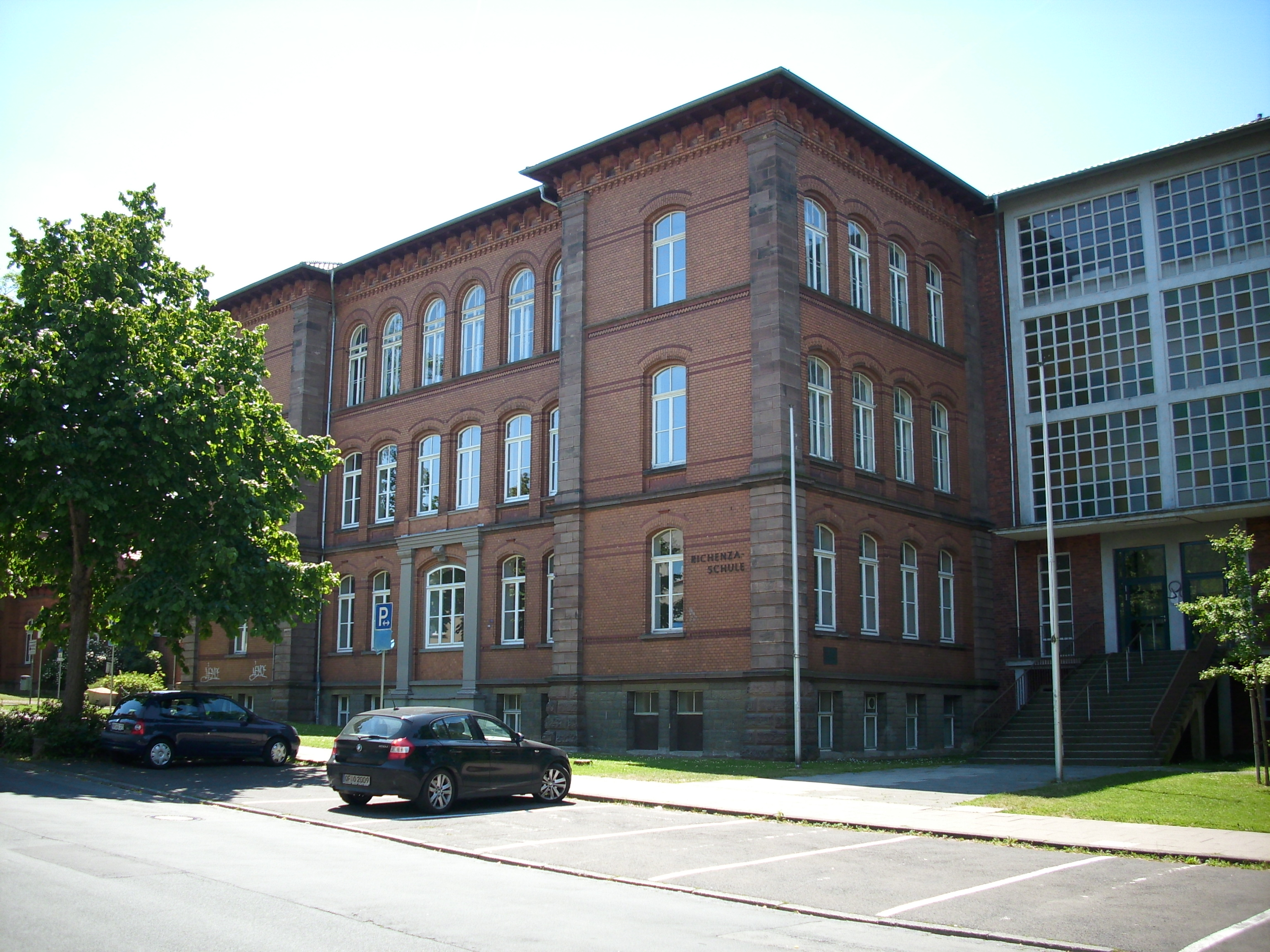 Corvinanum in Northeim.